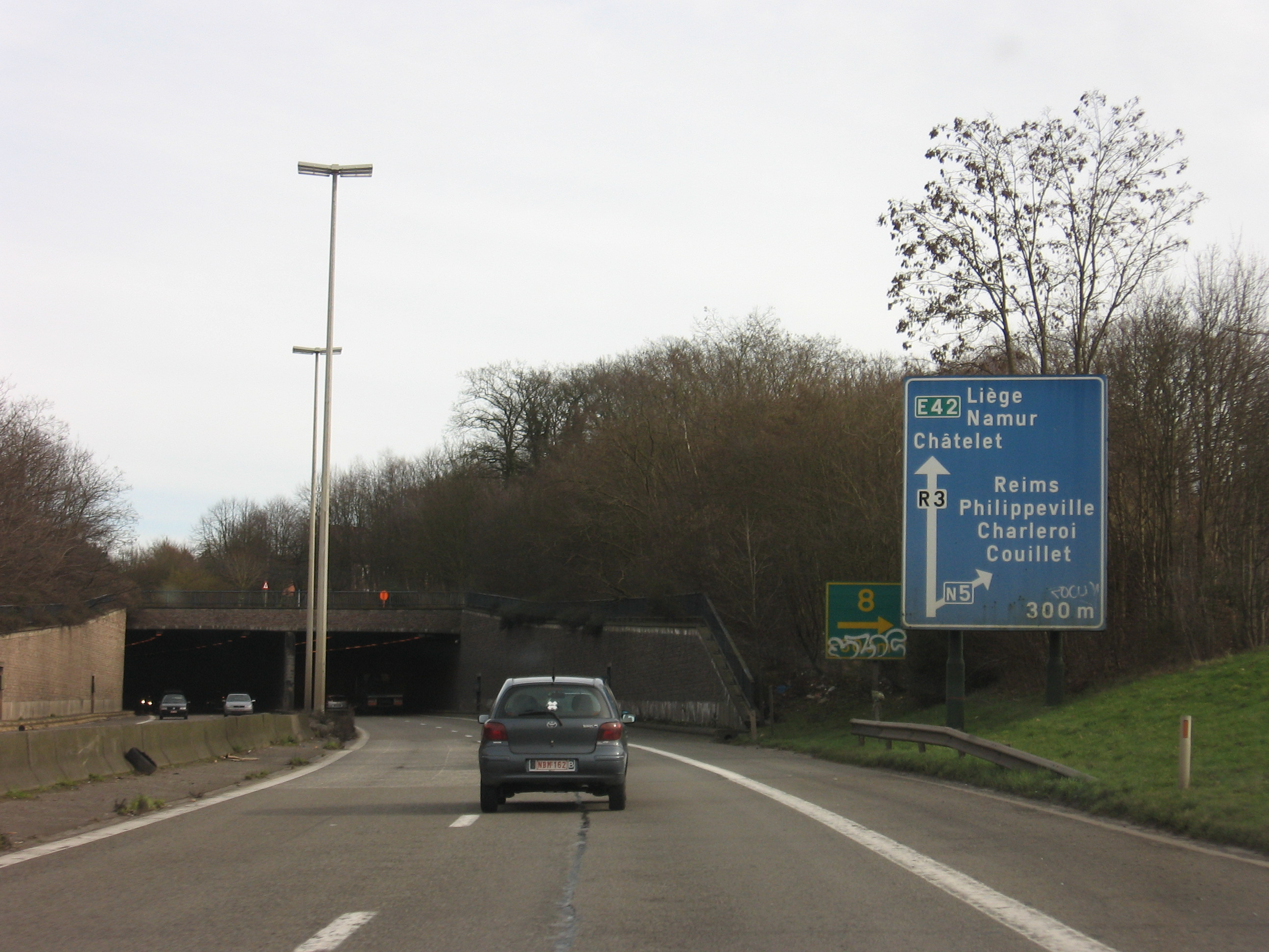 R3 ringroad in Charleroi, near exit 8 towards N5. Territory of Marcinelle